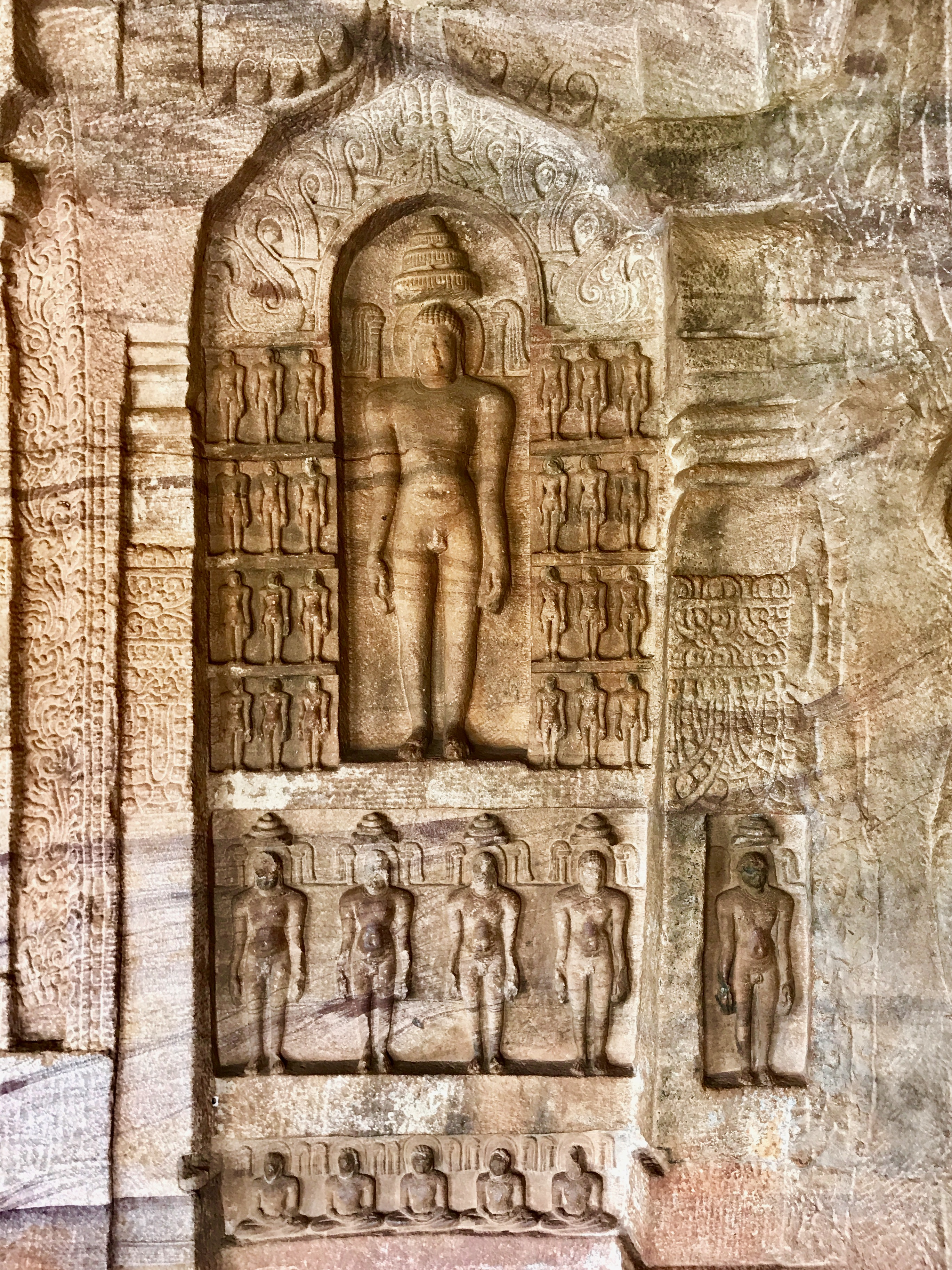 Cave 4 in Badami, Karnataka is a Jain temple. It is the smallest of Caves 1-4 group that exist together. The earliest carvings are from the 7th to 8th century, but the temple was likely enhanced through the 11th and 12th centuries. The temple shows intricately carved pillars, various Tirthankaras. The largest statues are devoted to Bahubali, Parshvanatha and Mahavira. Badami, also mentioned as Vatapi, Vatapipura and Vatapinagari in historical texts, was an important ancient and early medieval era capital. It is the site of the earliest Hindu cave temples in South India whose date can be established with certainty. The earliest cave temple (Cave 3, Vaishnavism) is from the 6th century, with Cave 1 (Shaivism) built shortly thereafter. Cave 2 (Vaishnavism) is dated to the 7th century. Cave 4 features theology and ideas of Jainism, built after the first three. The Badami region is home to numerous medieval era Hindu and Jain temples and monuments. It also has artwork that seem like Buddhist monuments but the syncretic nature of the artwork make them difficult to categorize as belonging to Buddhism or Hinduism.